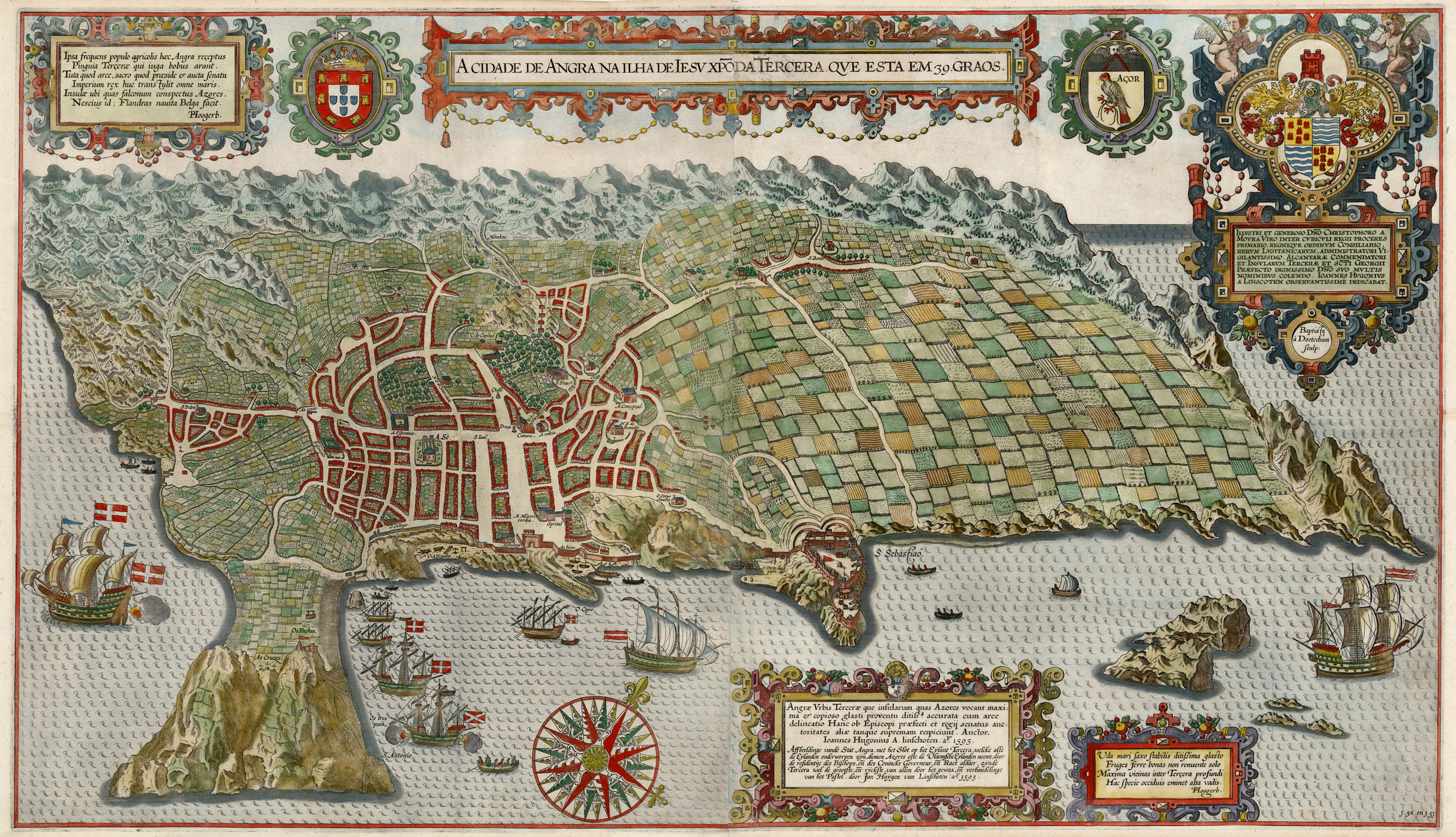 It shows the Terceira Island (Azores) and at the center, the city of Angra (nowadays Angra do Heroísmo) and the Monte Brasil. There are several versions of the drawing, with minor differences.